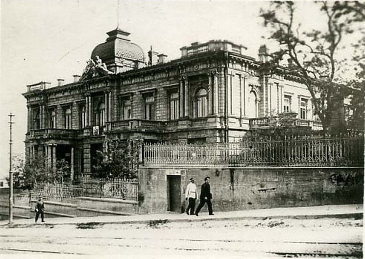 Debur's house, today - the building of National Art Museum of Azerbaijan